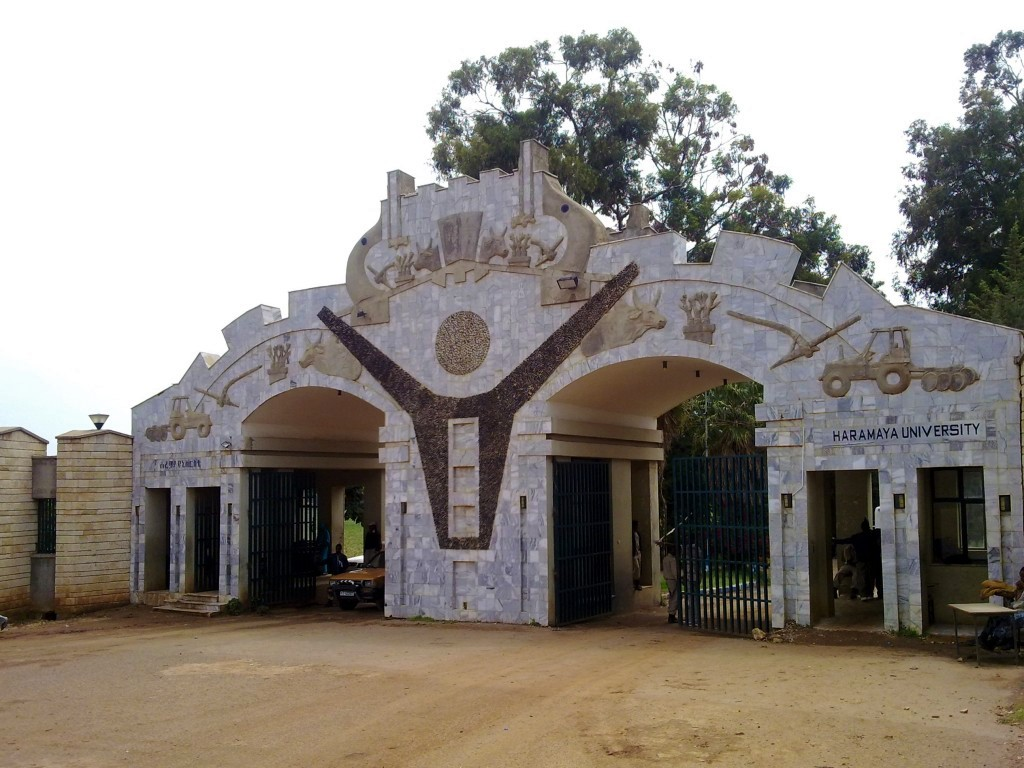 Haramaya University Main Gate አማርኛ: ለልማት መሰረት እንጥላለን!